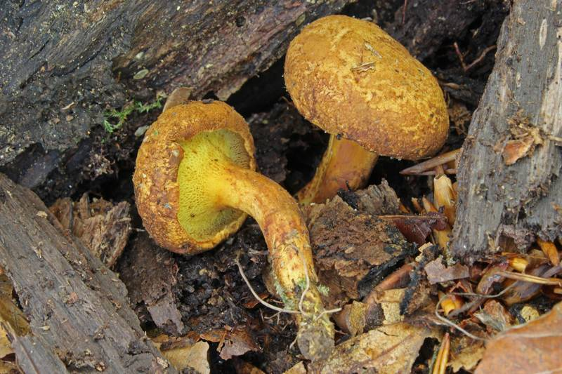 Buchwaldoboletus lignicola (Kallenb.) Pilát Image location: Rogi, Croatia Recognized by sight For more information about this, see the observation page at Mushroom Observer.